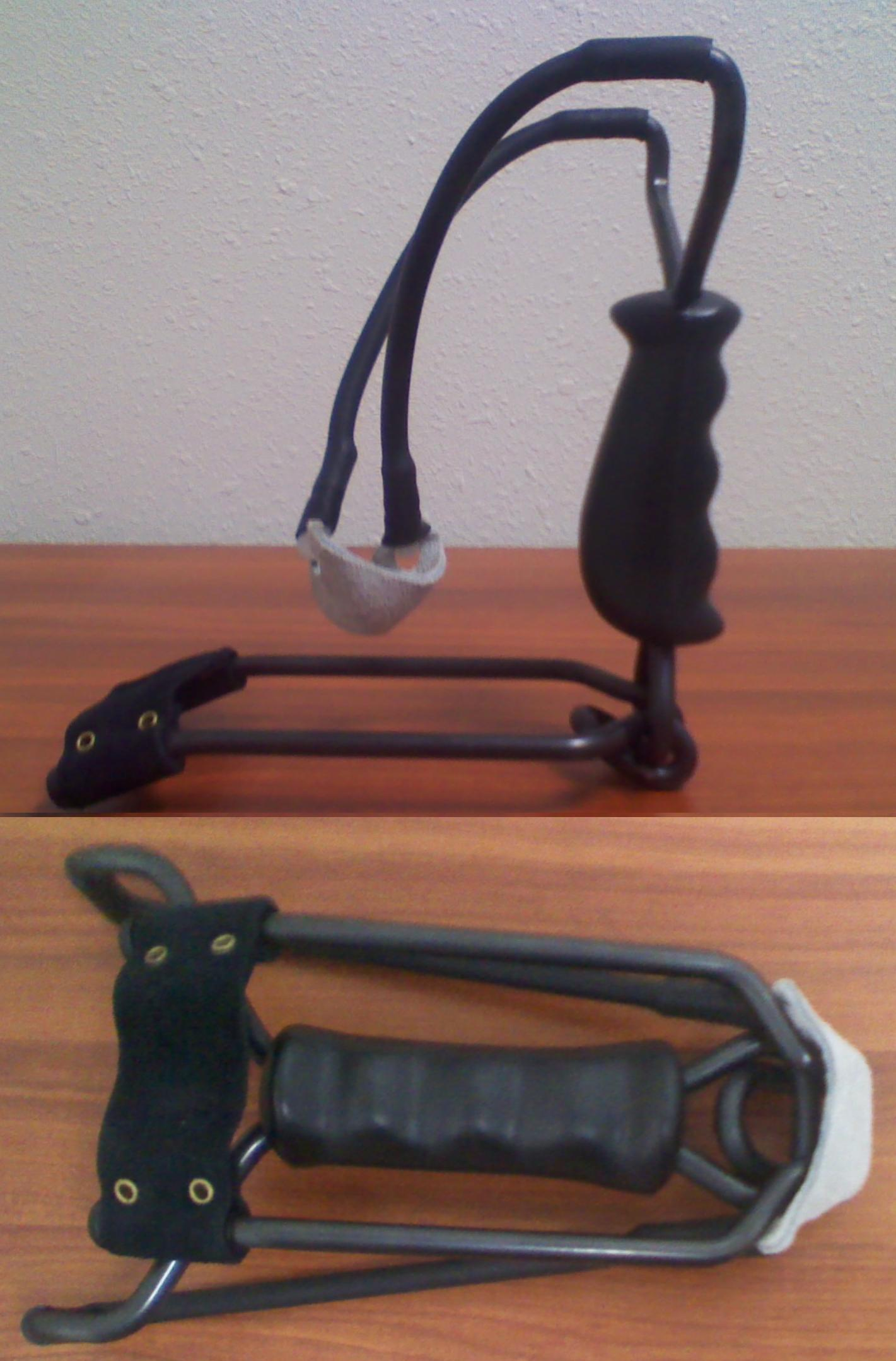 A folding wrist-lock slingshot sold by Benjamin Air Rifle Co. of Racine, Wisconsin under the "Powermaster" brand.